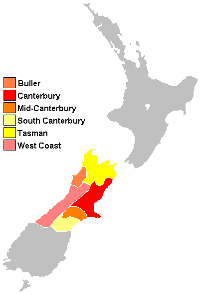 Provincial rugby unions consisting the Crusaders franchise area